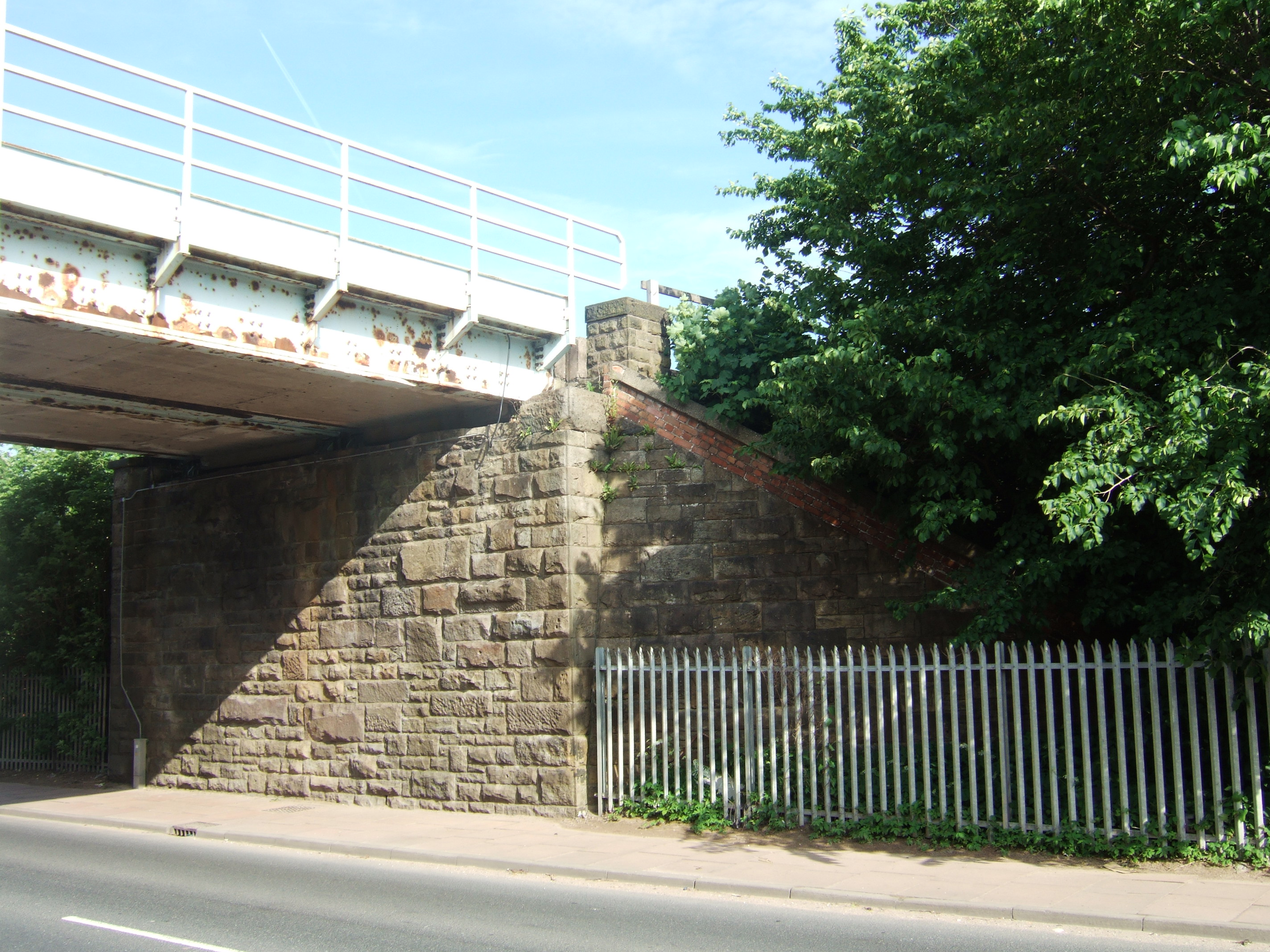 The site of Butts Lane Halt railway station in Southport, Merseyside. The station was situated on the embankment to the right of the bridge.